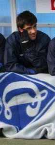 Denys Skepskyi as a player of FC Dynamo Moscow